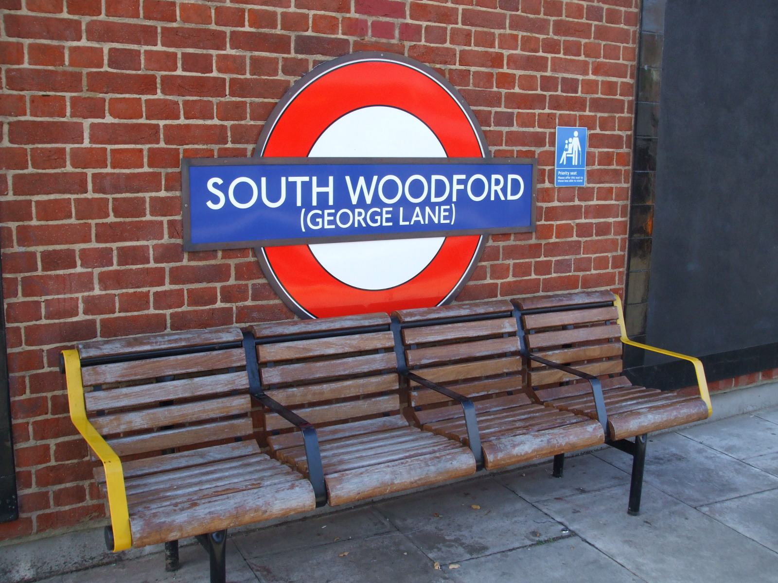 Roundel on South Woodford station eastbound platform - note that the "George Lane" suffix was dropped in 1950.